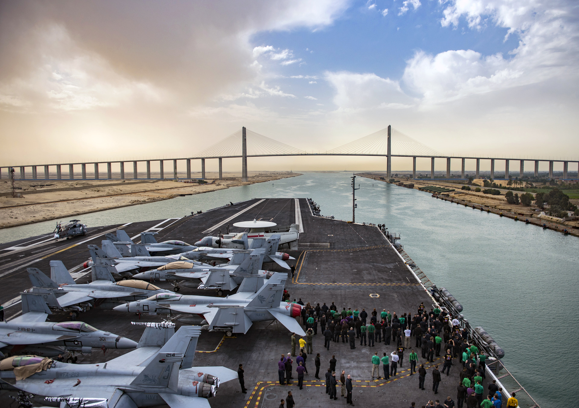 SUEZ CANAL (March 10, 2017) Sailors gather on the flight deck of the aircraft carrier USS George H.W. Bush (CVN 77) to view the Friendship Bridge as the ship transits the Suez Canal. George H.W. Bush and its carrier strike group are deployed in support of maritime security operations and theater security cooperation efforts in the U.S. 5th Fleet area of operations. (U.S. Navy photo by Mass Communication Specialist 3rd Class Michael B. Zingaro/Released)170310-N-KB401-349 Join the conversation: navylive.dodlive.mil